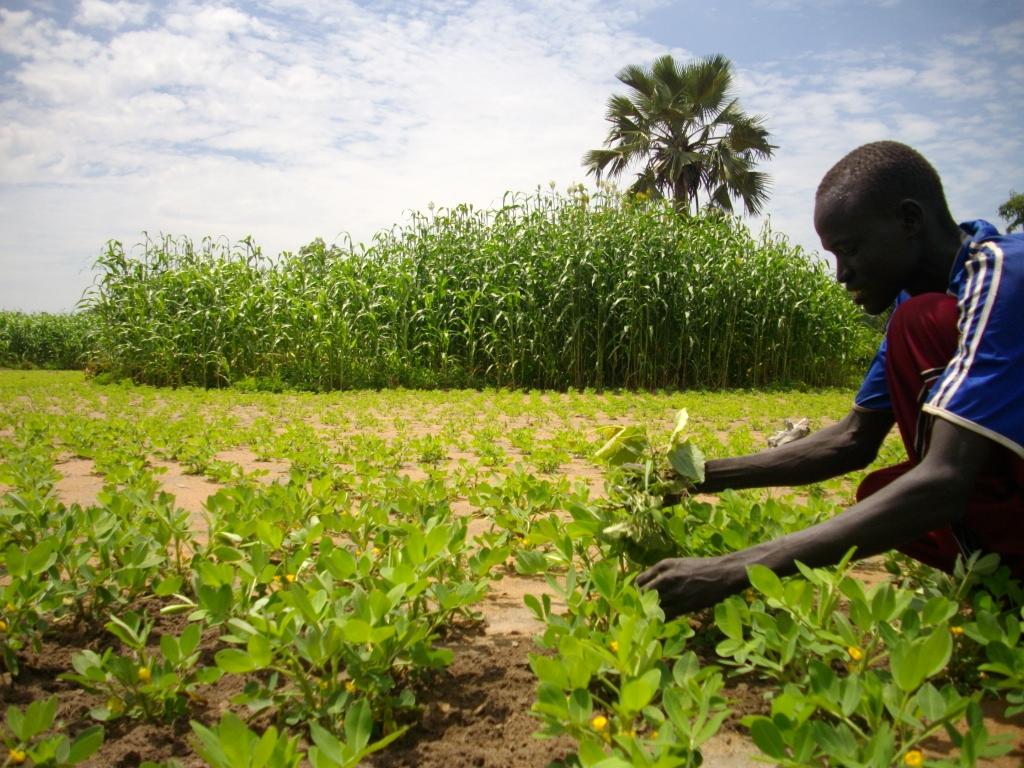 Justin Madut tends his groundnut and sorghum fields in Warrap State. South Sudan has considerable agricultural potential, but a lack of infrastructure – such as roads and storage facilities – and ongoing insecurity has limited production. Many markets are almost empty of fruit and vegetables, and rely heavily on imports and food aid. Oxfam is supporting small-scale farmers like Justin by providing a variety of seeds, tools and equipment to help increase the amount and quality of crops they are able to grow. Photo: Abdullah Ampilan/Oxfam Find out more at oxf.am/oYS